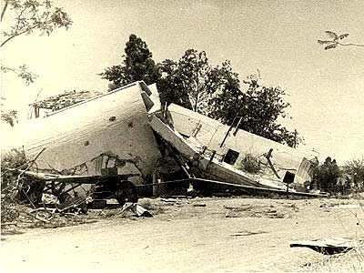 The water tower at kibbutz Shaar HaGolan after the battle during the 1948 Arab-Israeli War.